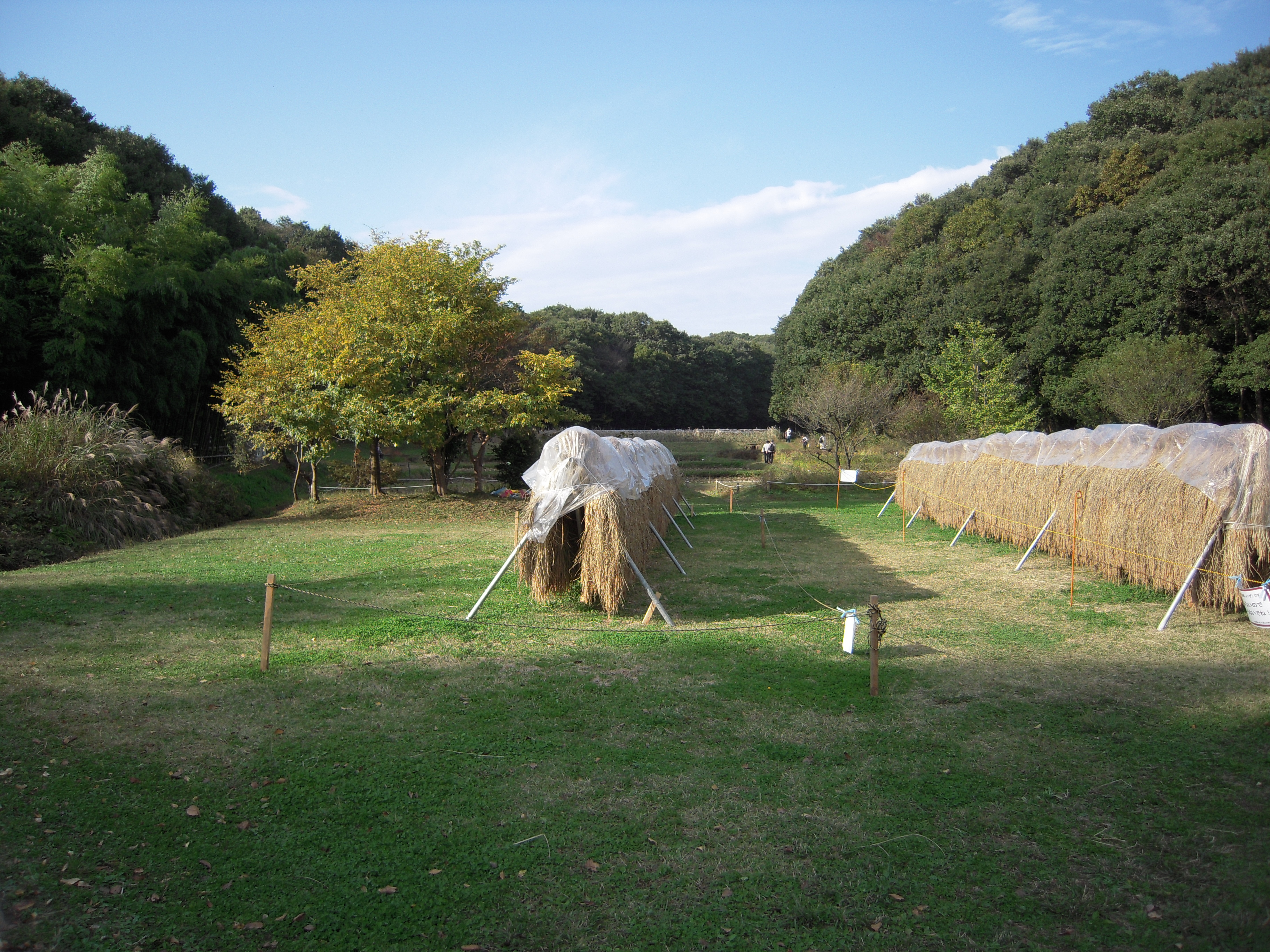 Satoyamaminka area of Noyamakita-Rokudohyama Koen